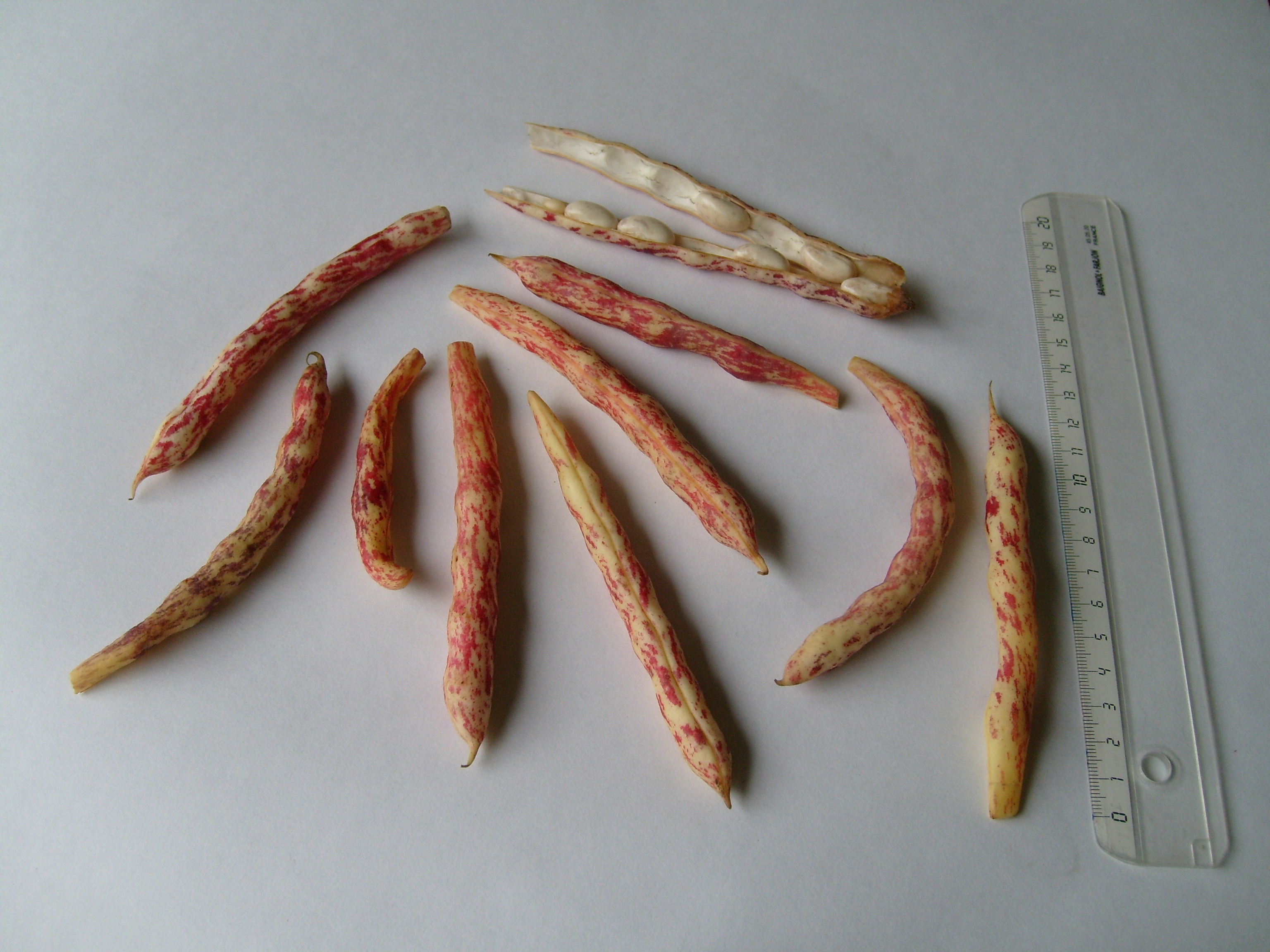 Phaseolus_vulgaris_(Borlotto)